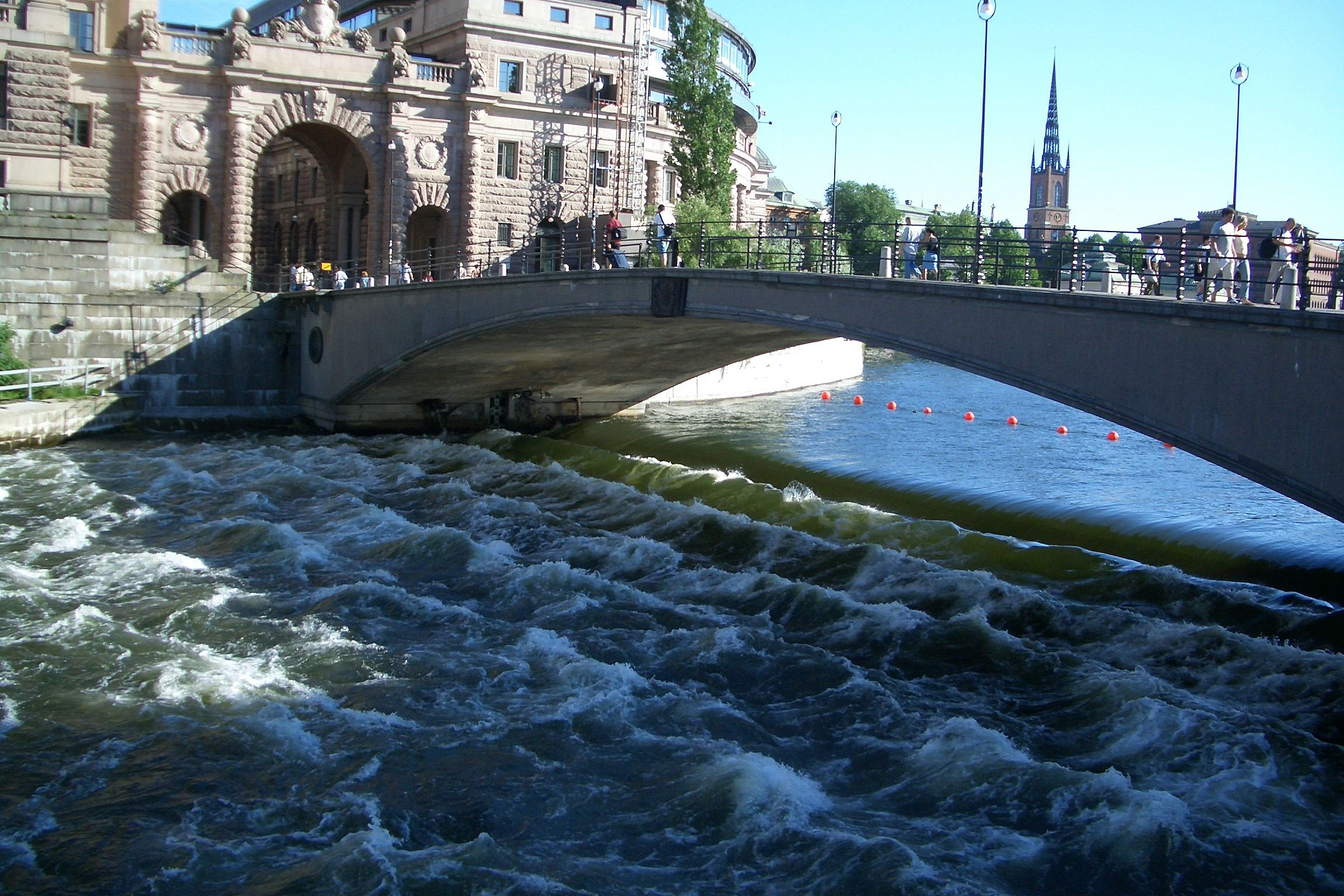 Stockholm: Transition of lake Mälaren into the Baltic Sea.